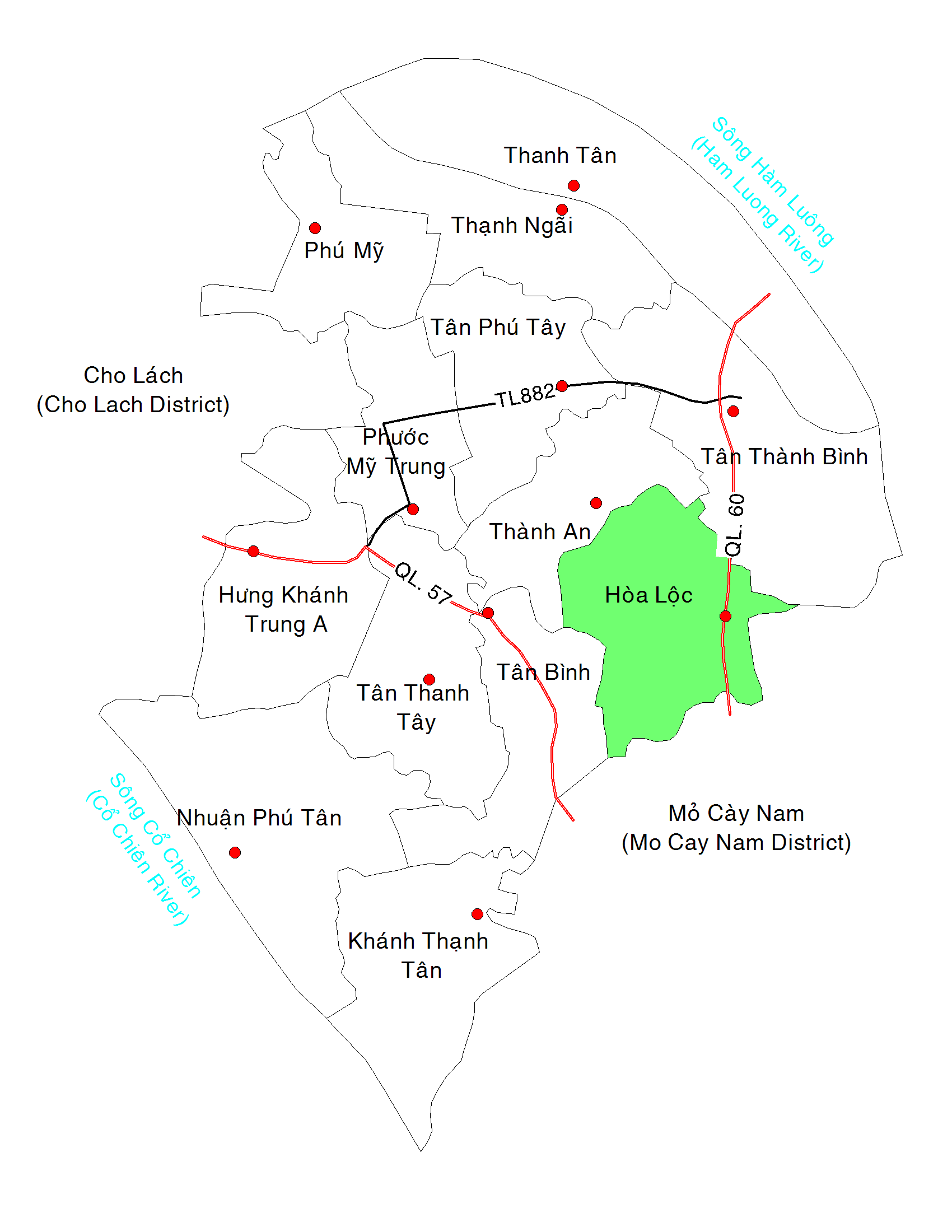 Locaiton map of Hoa Loc commune, Mo Cay Bac District, Ben Tre province, Vietnam